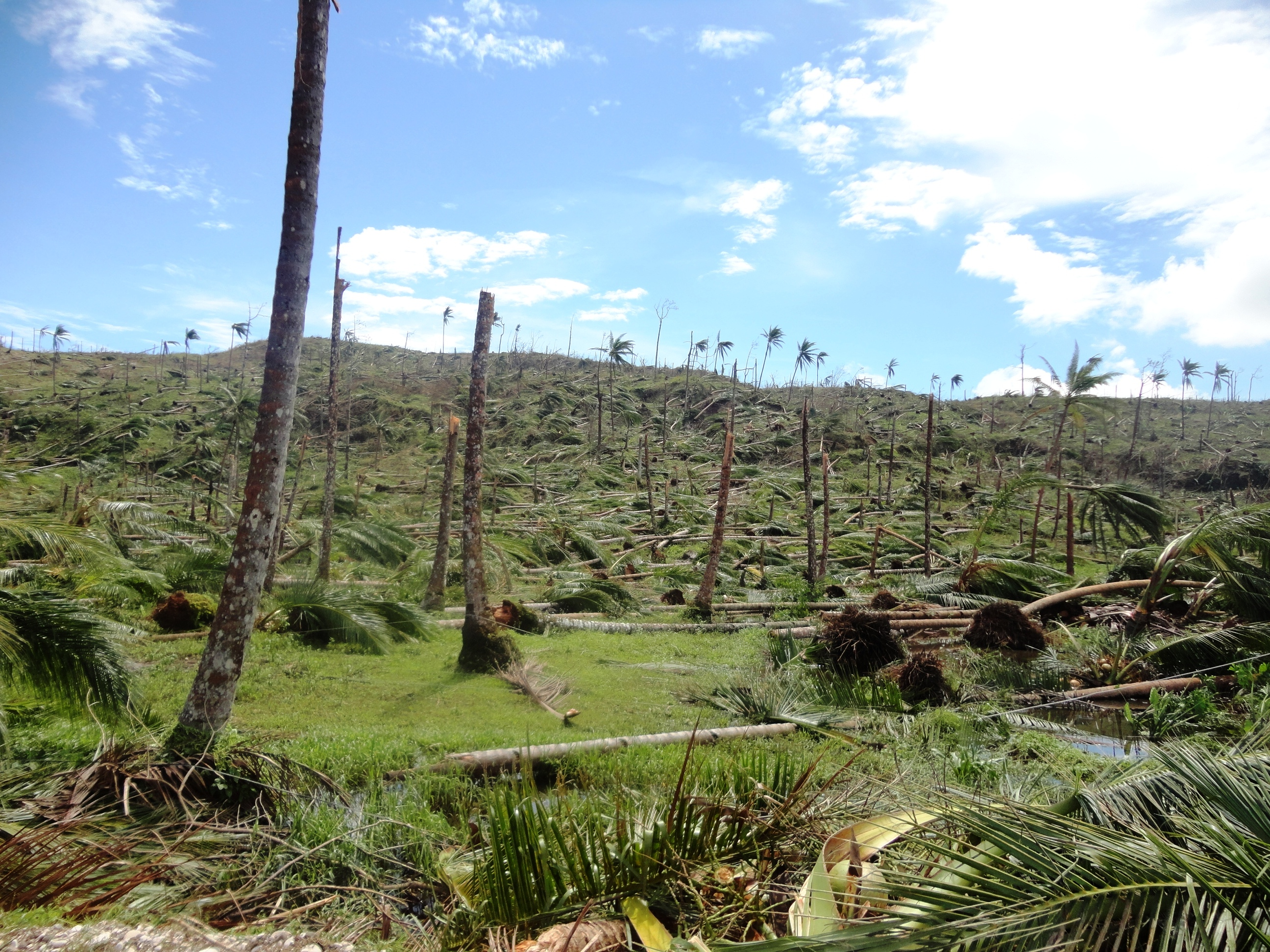 What is left of Sitio Mahan-ob.